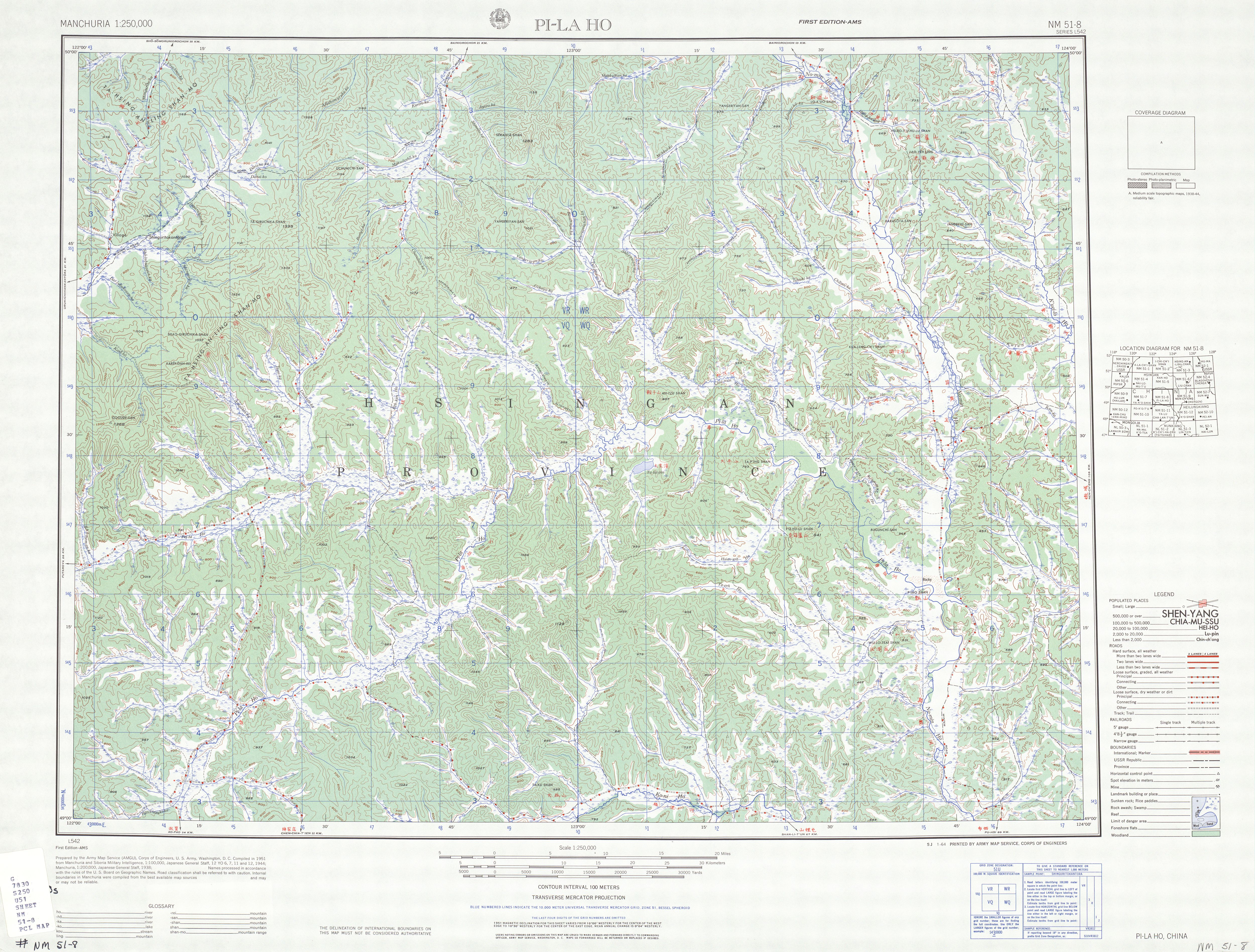 Manchuria AMS Topographic Maps